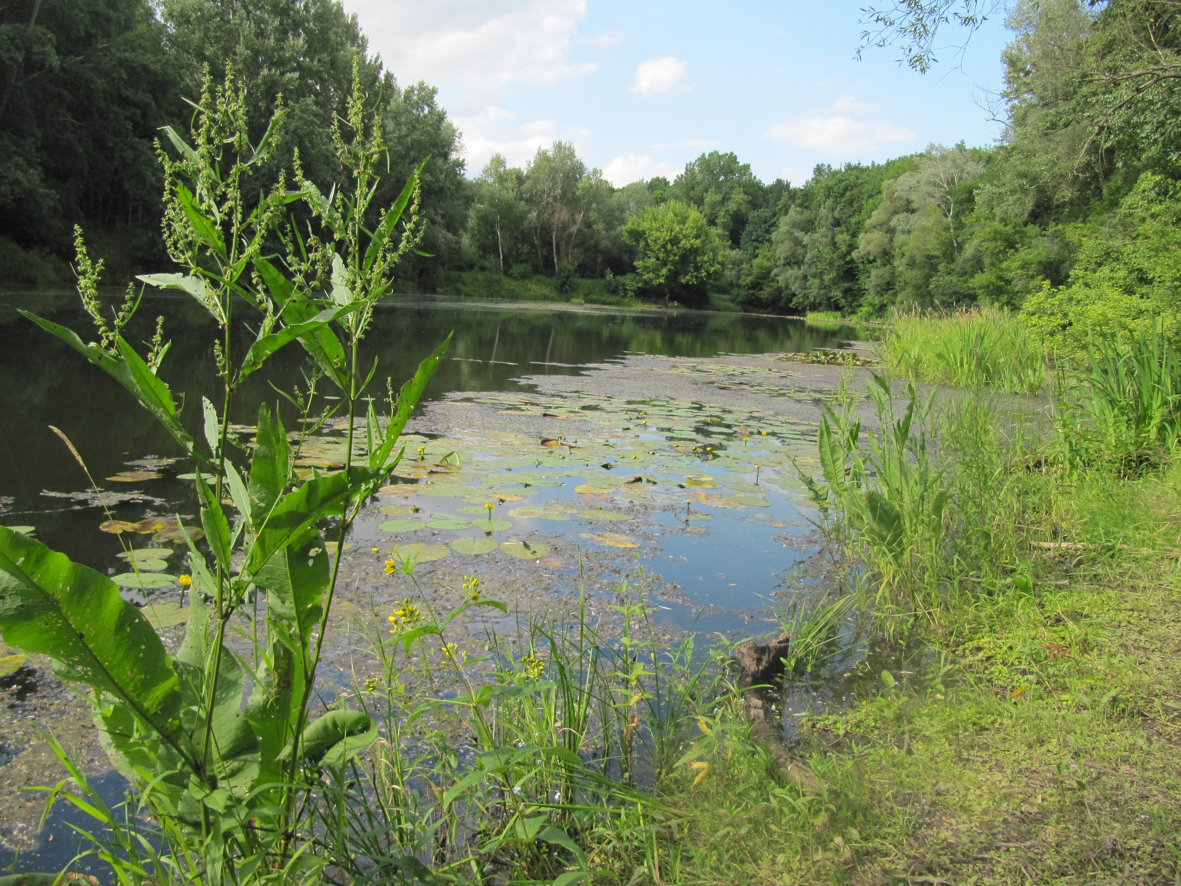 Kněžpole in Uherské Hradiště District, Czech Republic. Kanada (nature reserve) .